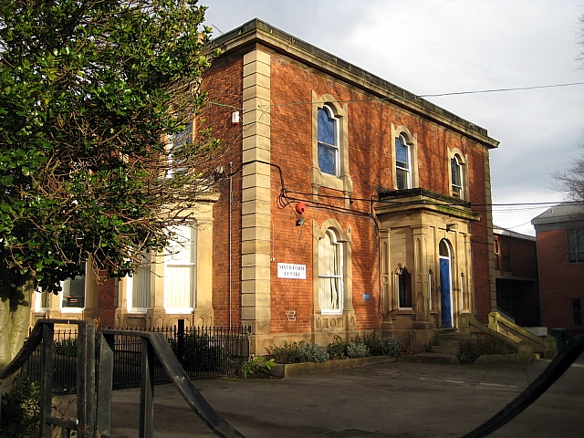 Sixth Form Centre, Wakefield Girls High School Originally a private house, the Sixth Form Centre in Margaret Street forms part of the Wakefield Girls High School complex.